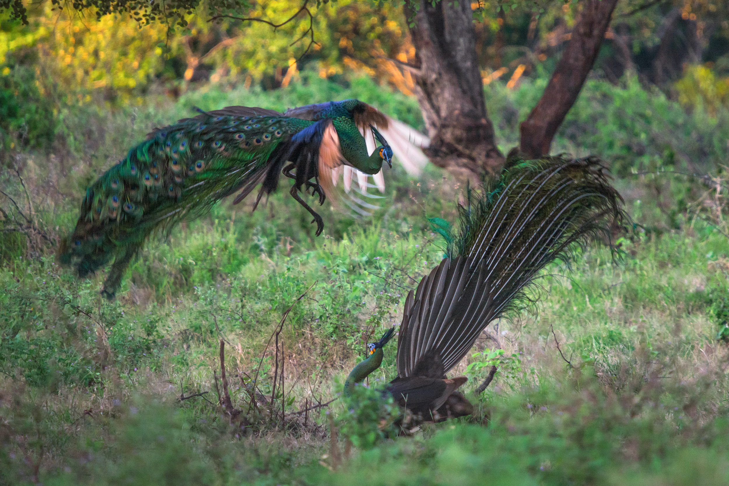 Two green peacocks (Pavo muticus) fighting at Bekol Savannah, Baluran National Park, Indonesia